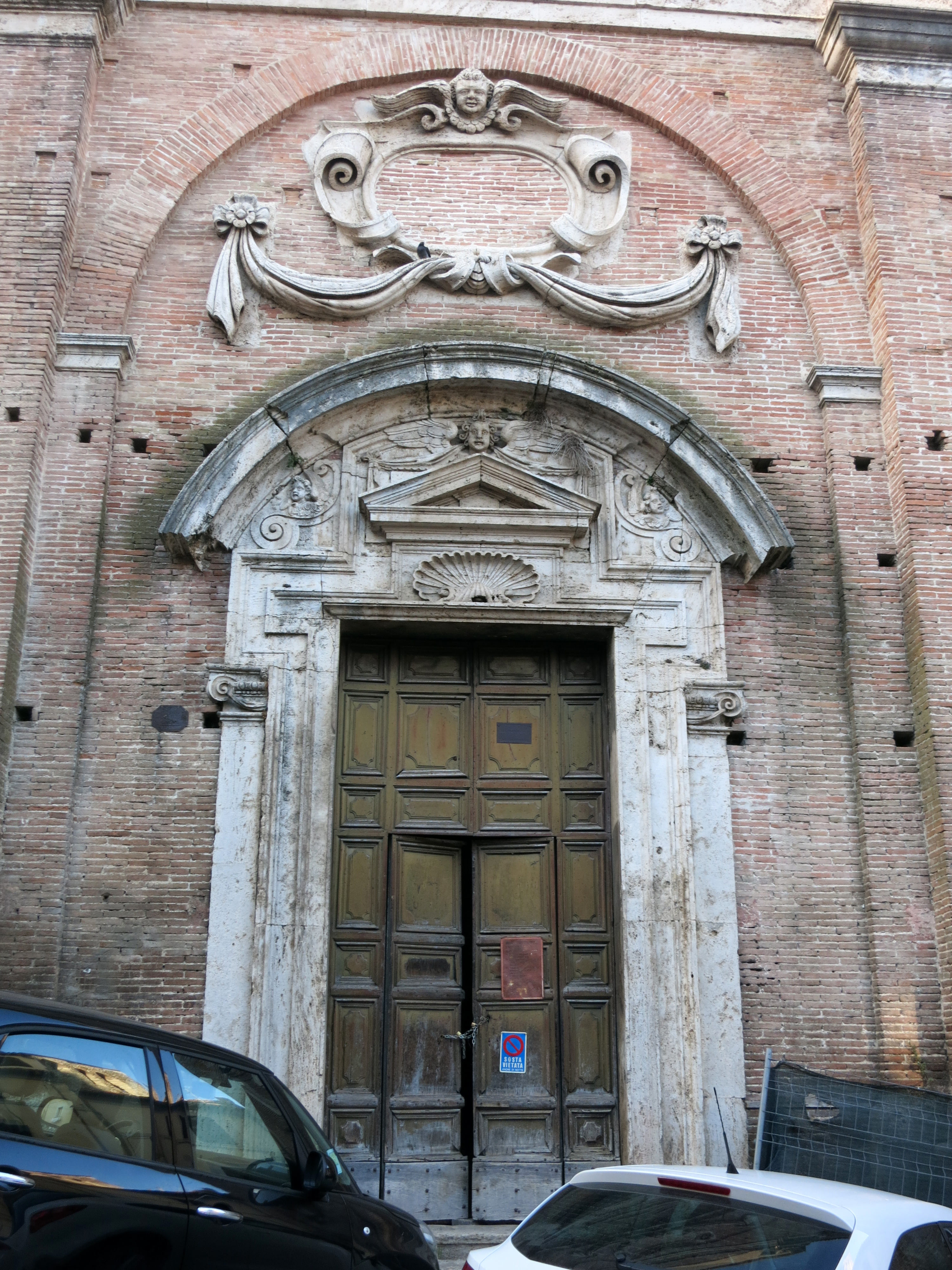 Saint Anthony the Great church. Rieti, Lazio, Italy